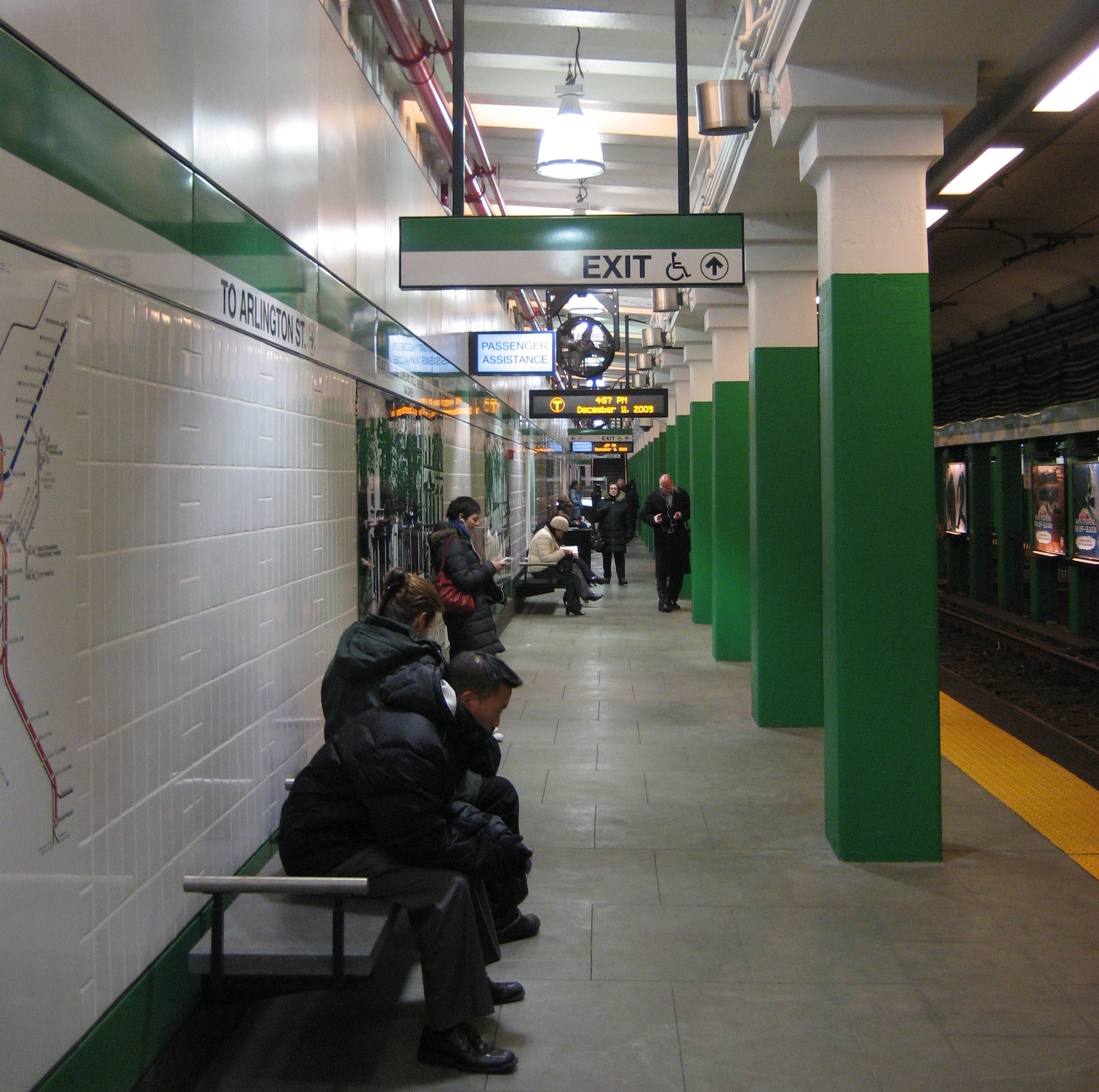 Arlington Station on the MBTA Green Line after renovation was completed in 2009.